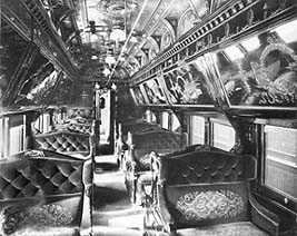 Pullman Car interior, from Chicago Historical Society